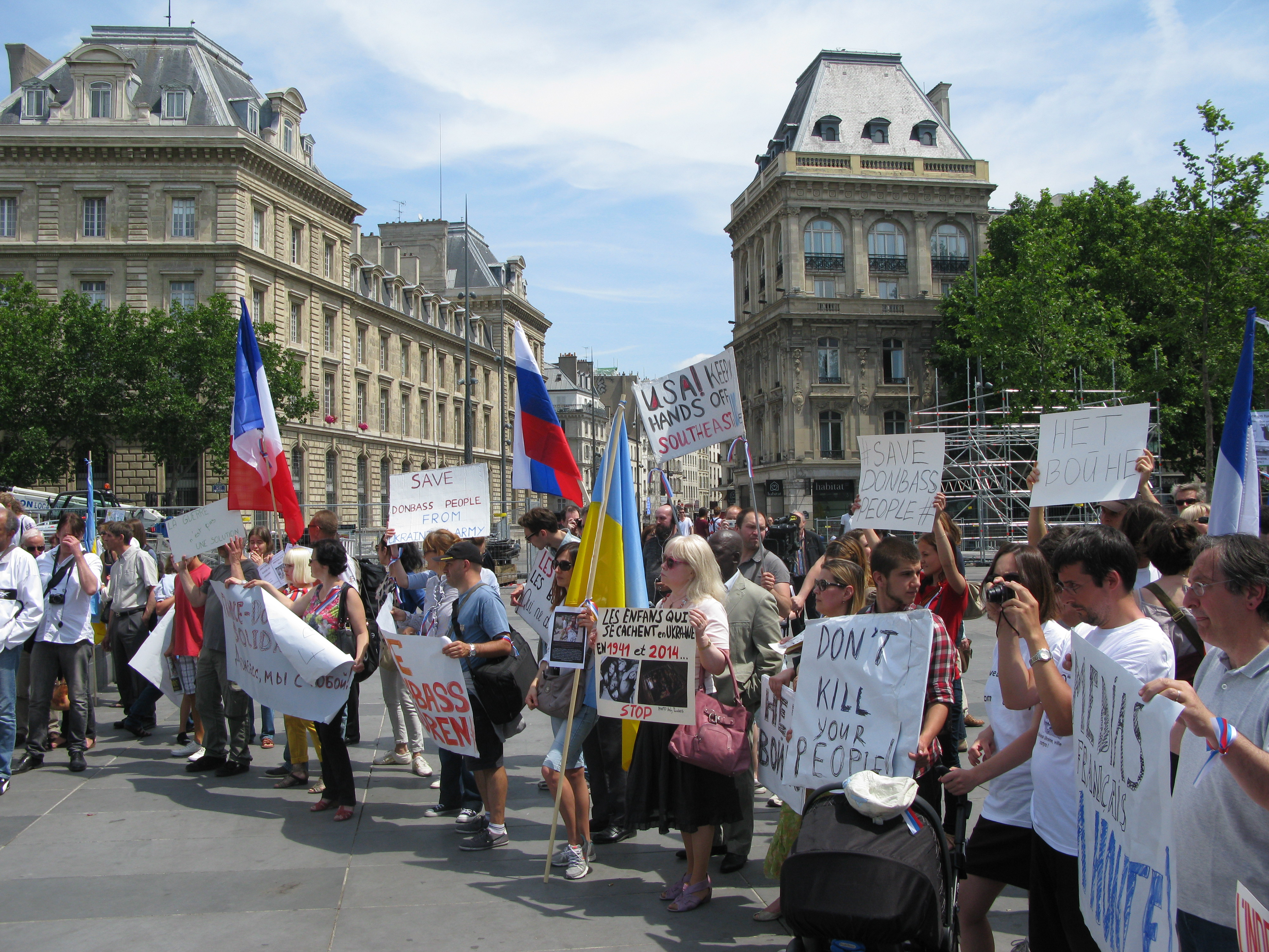 Demonstration for peace in Ukraine, Republic square, 22th June 2014, Paris.